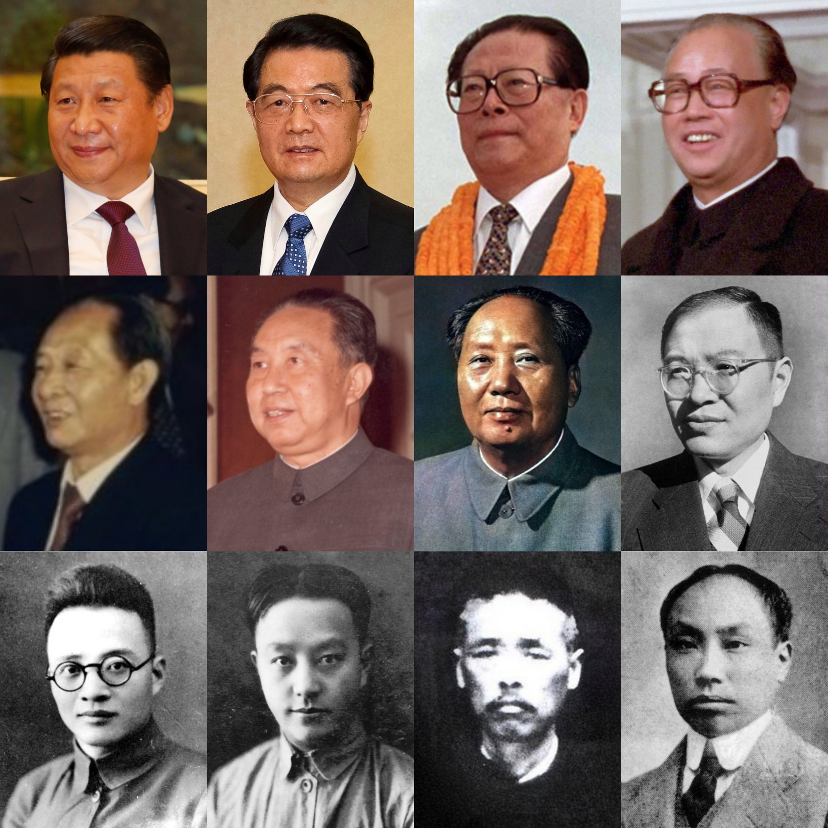 Chen Duxiu (Chairman & General Secretary, 1921-1927) Xiang Zhongfa (Chairman & General Secretary, 1928-1931) Wang Ming (acting, 1931) Bo Gu (General Secretary, 1934-1935) Zhang Wentian (General Secretary, 1935-1943) Mao Zedong (Chairman, 1943-1976) Hua Guofeng (Chairman, 1976-1981) Hu Yaobang (Chairman & General Secretary, 1981-1987) Zhao Ziyang (acting & General Secretary, 1987-1989) Jiang Zemin (General Secretary, 1989-2002) Hu Jintao (General Secretary, 2002-2012) Xi Jinping (General Secretary, 2012-incumbent)